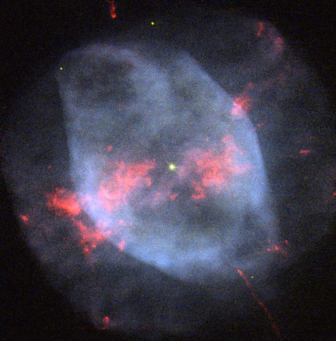 Located in a relatively vacant region of space about 4200 light-years away and difficult to see using an amateur telescope, the lonesome planetary nebula NGC 7354 is often overlooked. However, thanks to this image captured by the NASA/ESA Hubble Space Telescope we are able to see this brilliant ball of smoky light in spectacular detail. Just as shooting stars are not actually stars and lava lamps do not actually contain lava, planetary nebulae have nothing to do with planets. The name was coined by Sir William Herschel because when he first viewed a planetary nebula through a telescope, he could only identify a hazy smoky sphere, similar to gaseous planets such as Uranus. The name has stuck even though modern telescopes make it obvious that these objects are not planets at all, but the glowing gassy outer layers thrown off by a hot dying star. It is believed that winds from the central star play an important role in determining the shape and morphology of planetary nebulae. The structure of NGC 7354 is relatively easy to distinguish. It consists of a circular outer shell, an elliptical inner shell, a collection of bright knots roughly concentrated in the middle and two symmetrical jets shooting out from either side. Research suggests that these features could be due to a companion central star, however the presence of a second star in NGC 7354 is yet to be confirmed. NGC 7354 resides in Cepheus, a constellation named after the mythical King Cepheus of Aethiopia and is about half a light-year in diameter. A version of this image was entered into the Hubble’s Hidden Treasures image processing competition by contestant Bruno Conti.